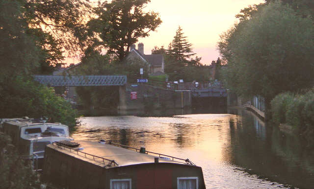 Osney Lock, River Thames, Oxford. Looking northwards to Osney Lock on the River Thames at Oxford at sunset.